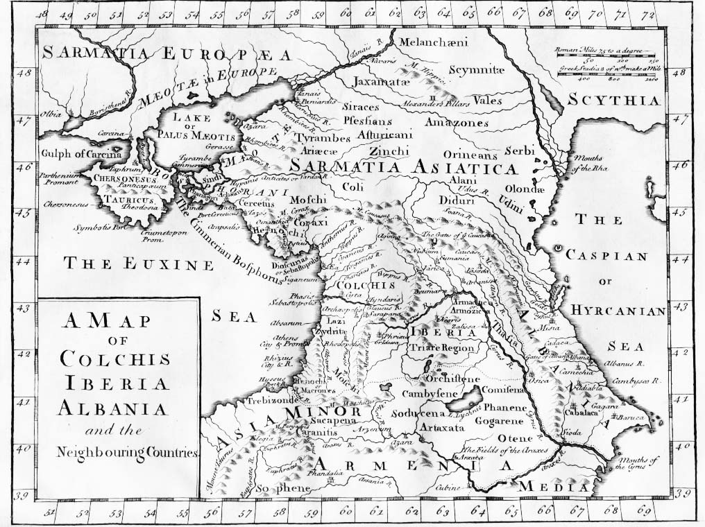 "A Map of Colchis, Iberia, Albania, and the neighbouring countries". A map of the Caucasus / Crimea / southern Russia region during classical antiquity (the ancient period). Note that the "Albania" referred to was on the Caspian Sea (not the modern Albania in the Balkans). Copper-engraved map, no publisher or date, London, ca 1770 (or 1729?).